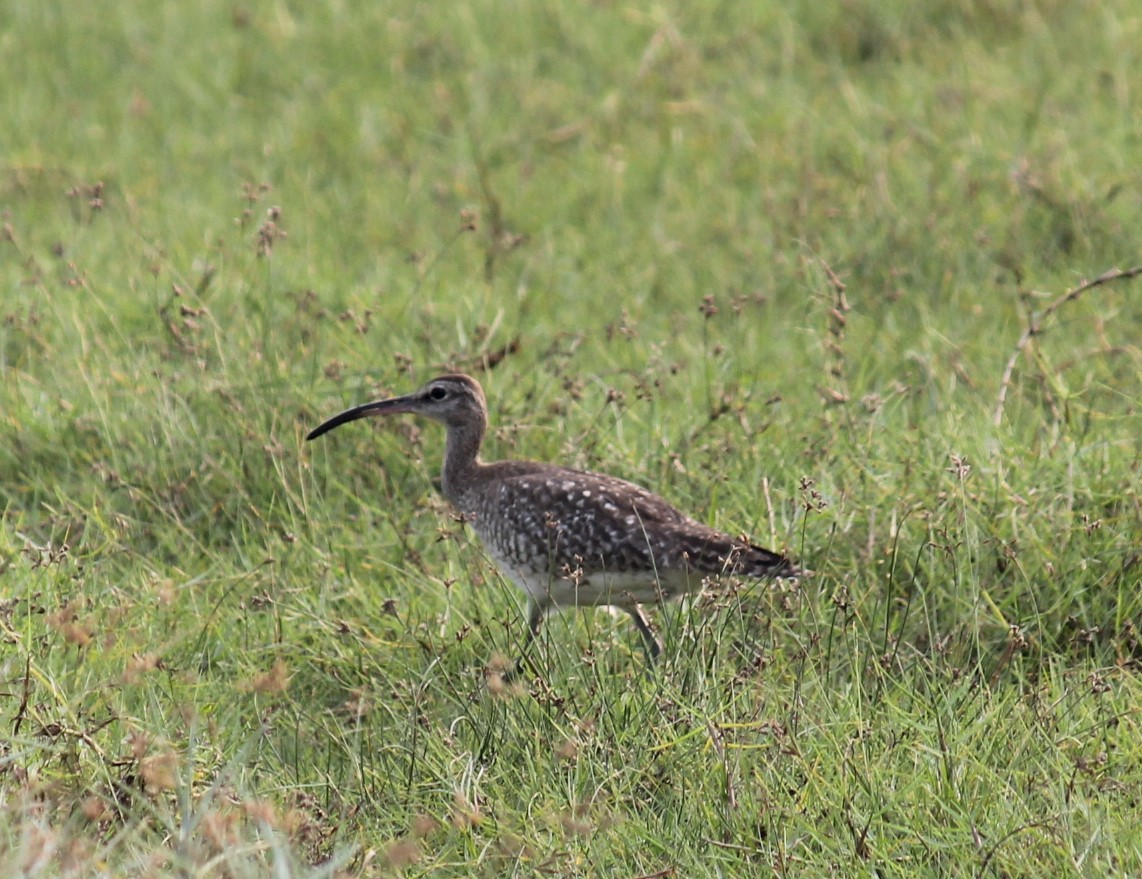 Eurasian Whimbrel at Chilika Lake